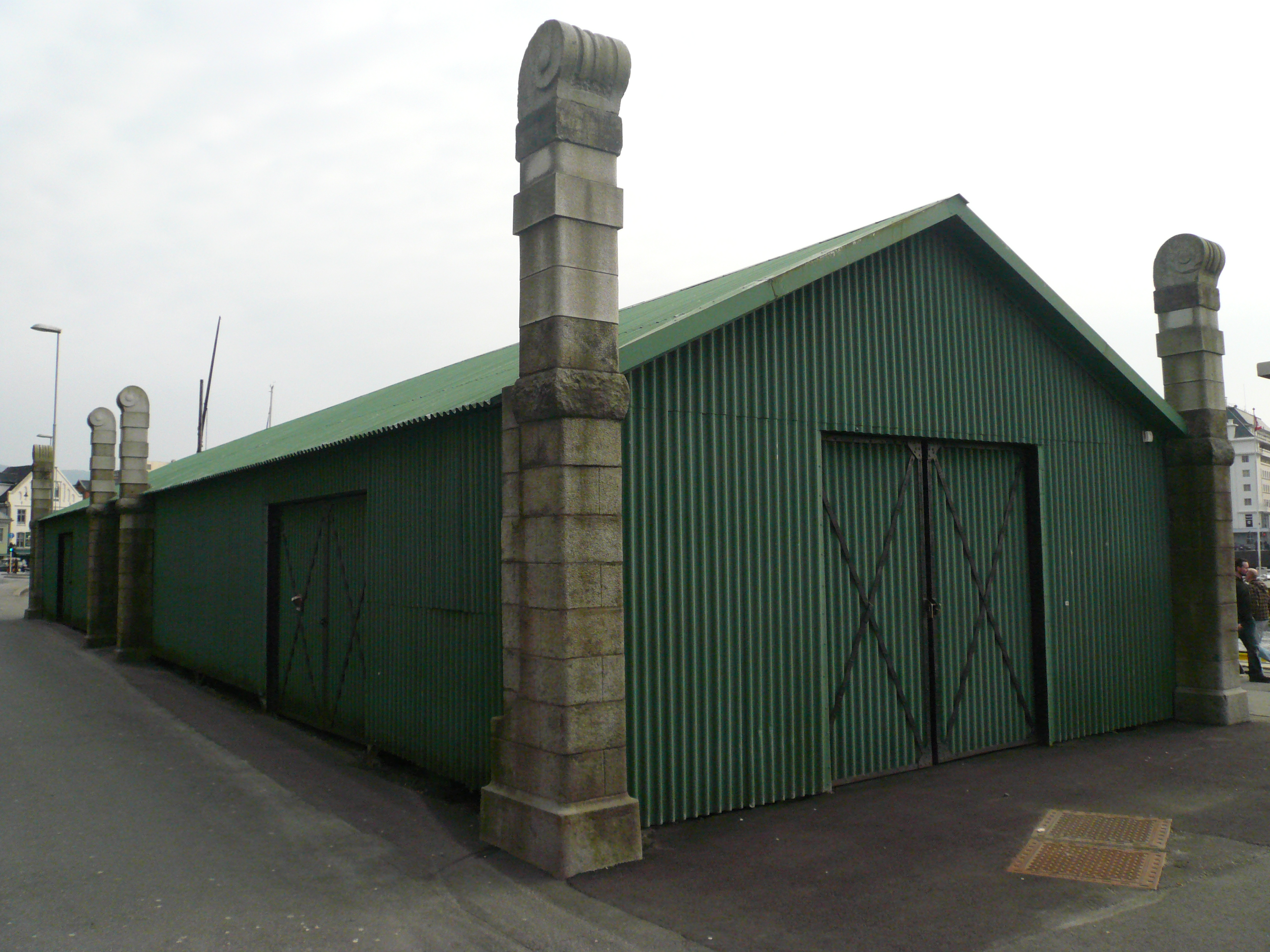 Skur 11, Bergen, Norway